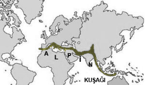 original version edited into Turkish by User:Azizkayihan